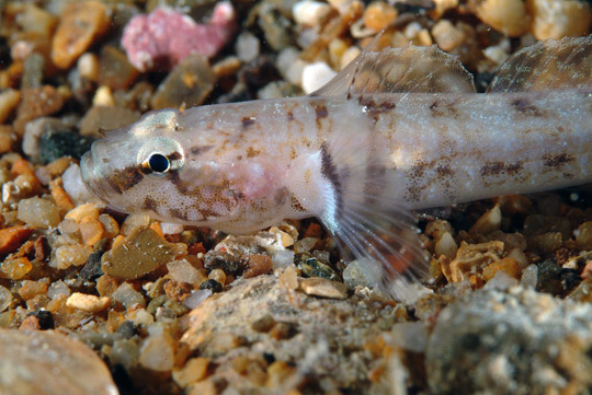 Chromogobius zebratus (head), photo taken near Calafuria (Livorno province, Tuscany, Italy) by Stefano Guerrieri.